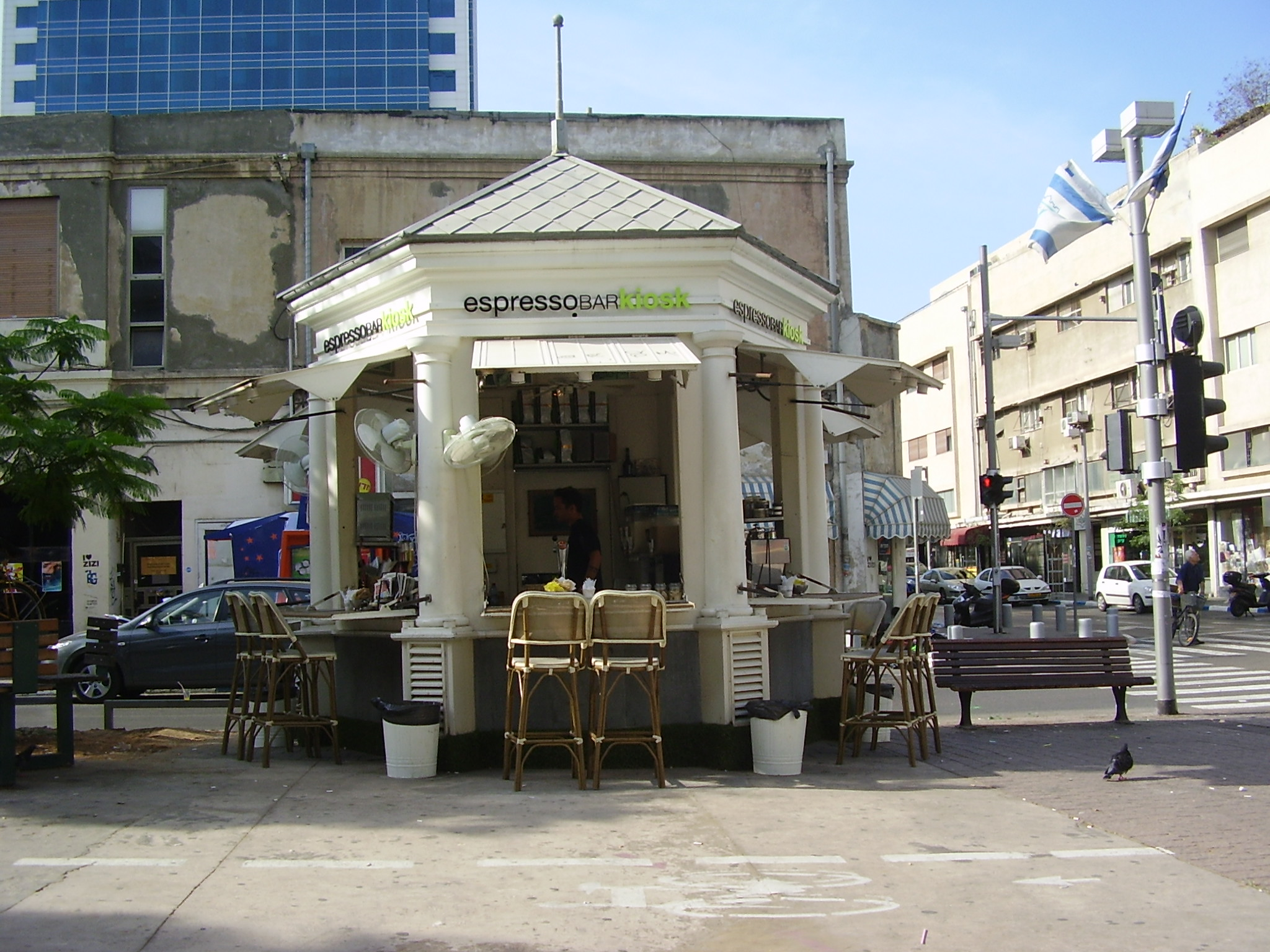 renovated kiosk in rotshild blvd. in tel-aviv